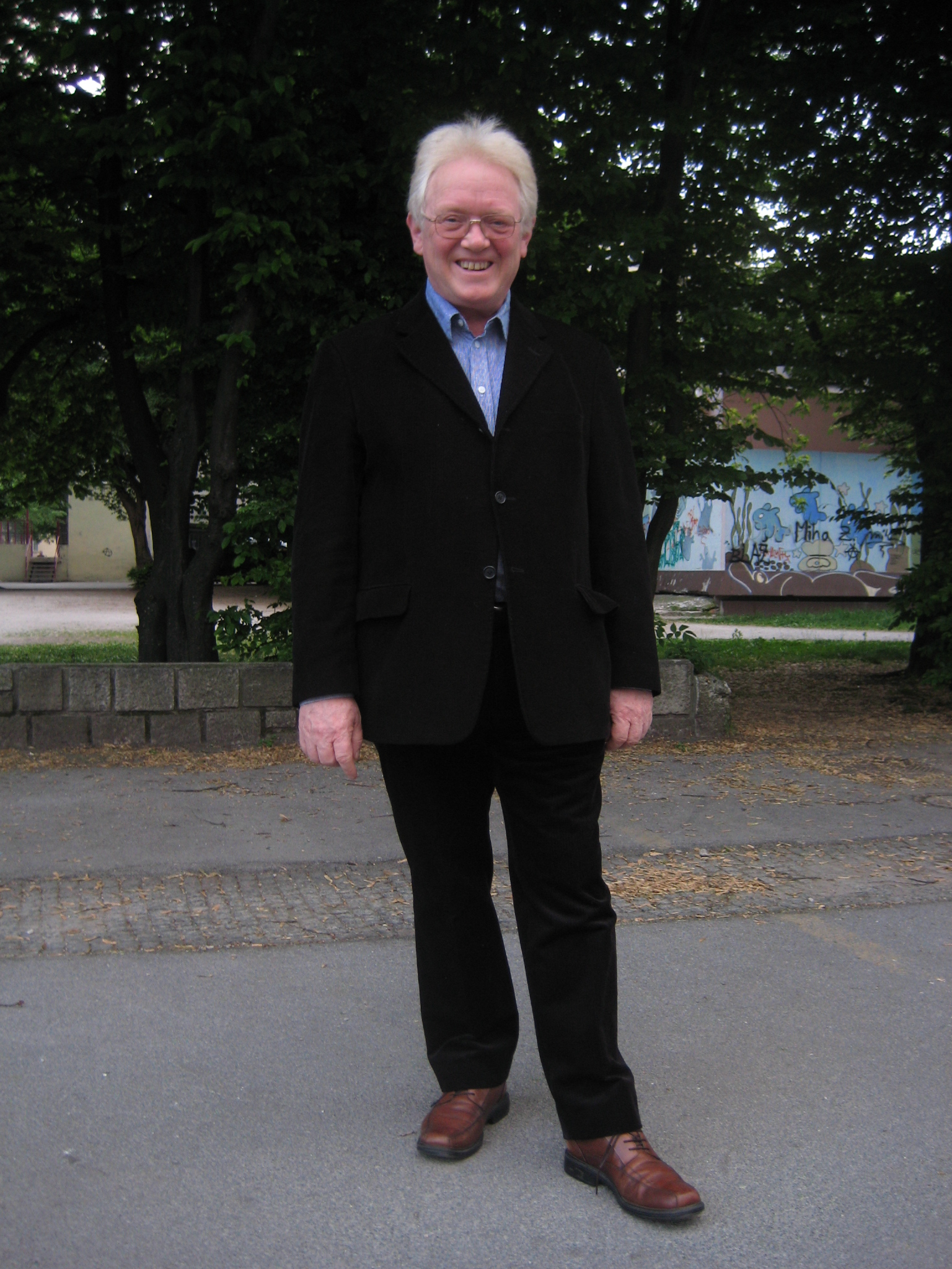 Christopher Gunning, British composer of concert works and music for films and television.